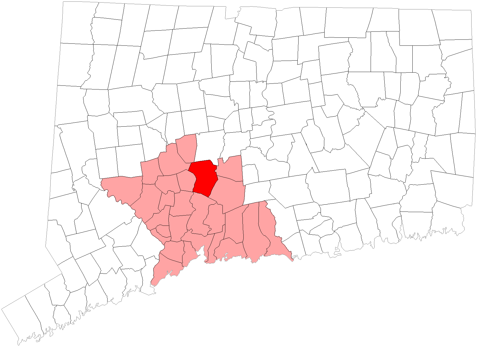 Map of Cheshire